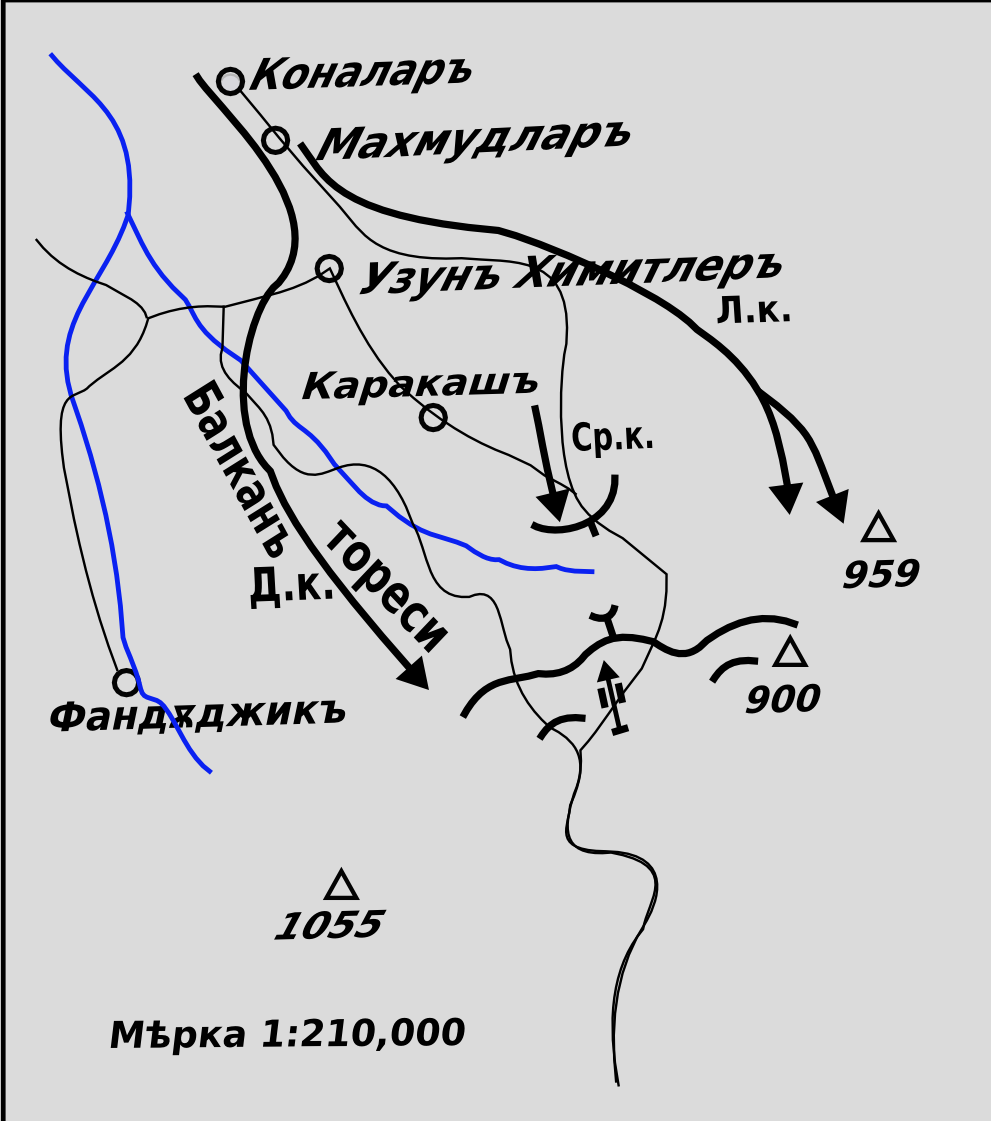 Battle at Balkan-Toresi (1912)